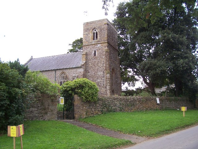 Holy Trinity parish church, Swyre, Dorset, seen from the northwest